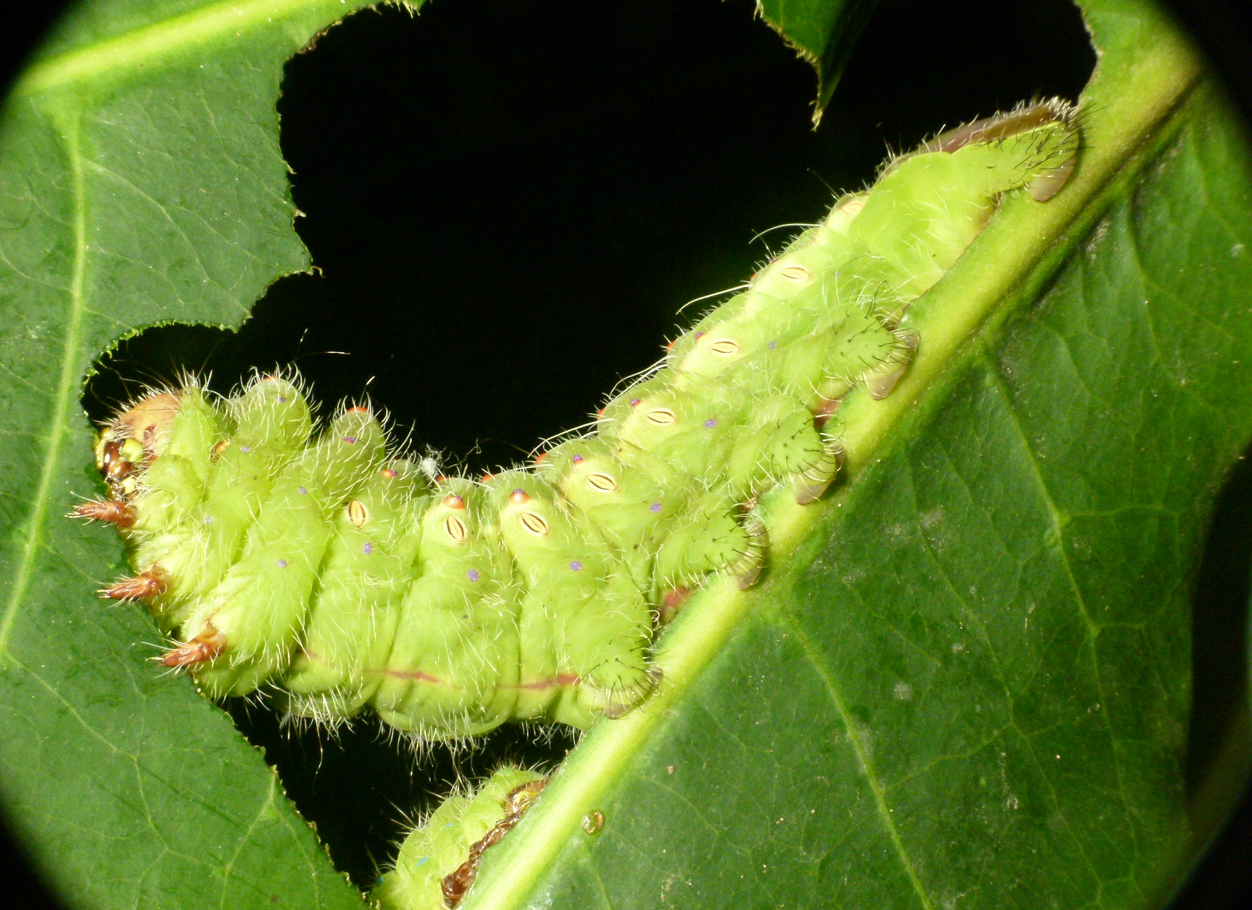 Larva of Antheraea mylitta feeding on Terminalia catappa, Bangalore, India